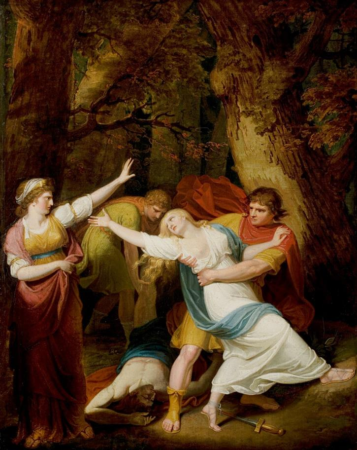 Tamora, Lavinia, Demetrius and Chiron